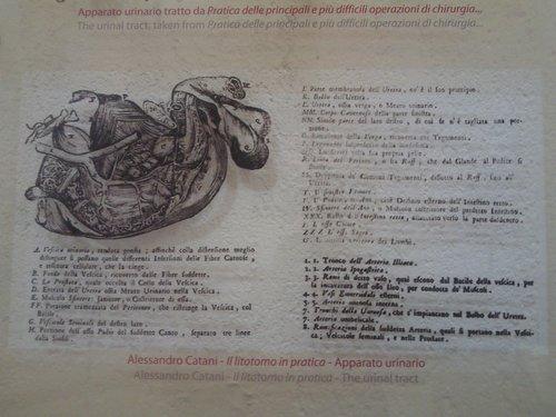 Print concerning the urinal tract taken from a dissertation about lithotomy